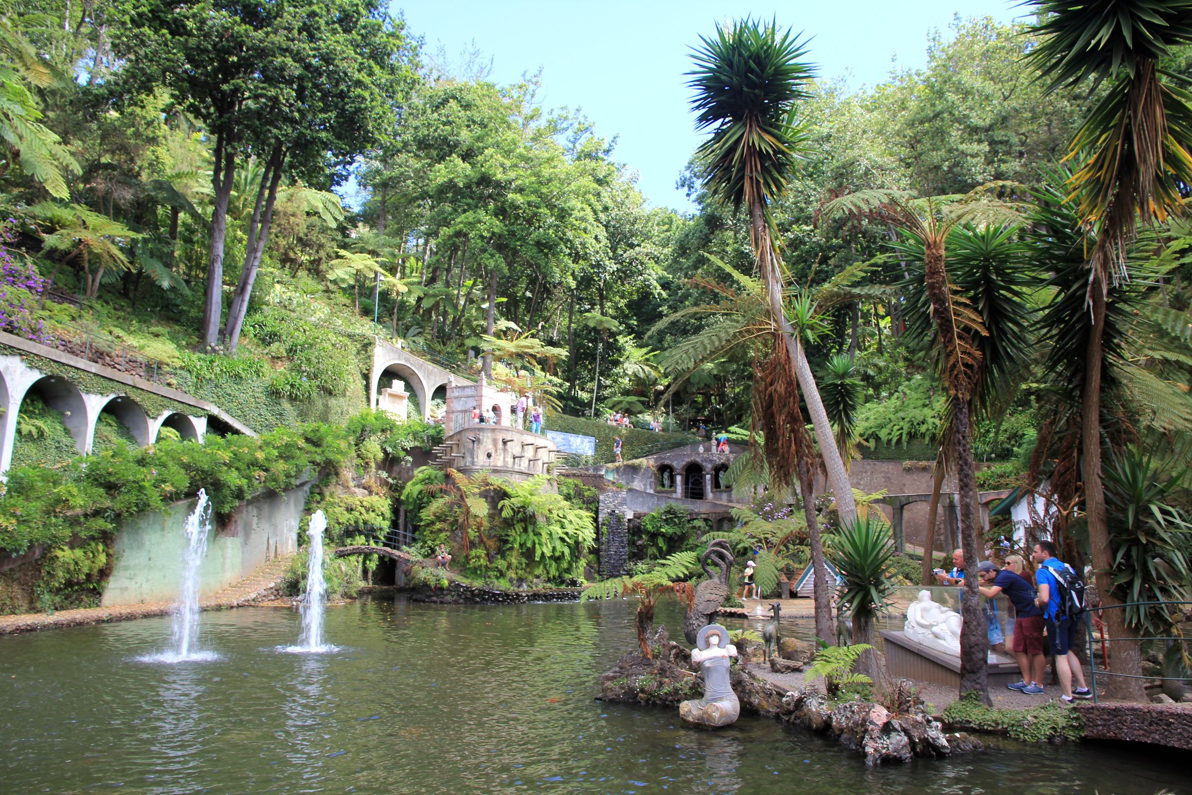 Central small lake in Monte Palace Tropical Garden in the city Funchal, Madeira